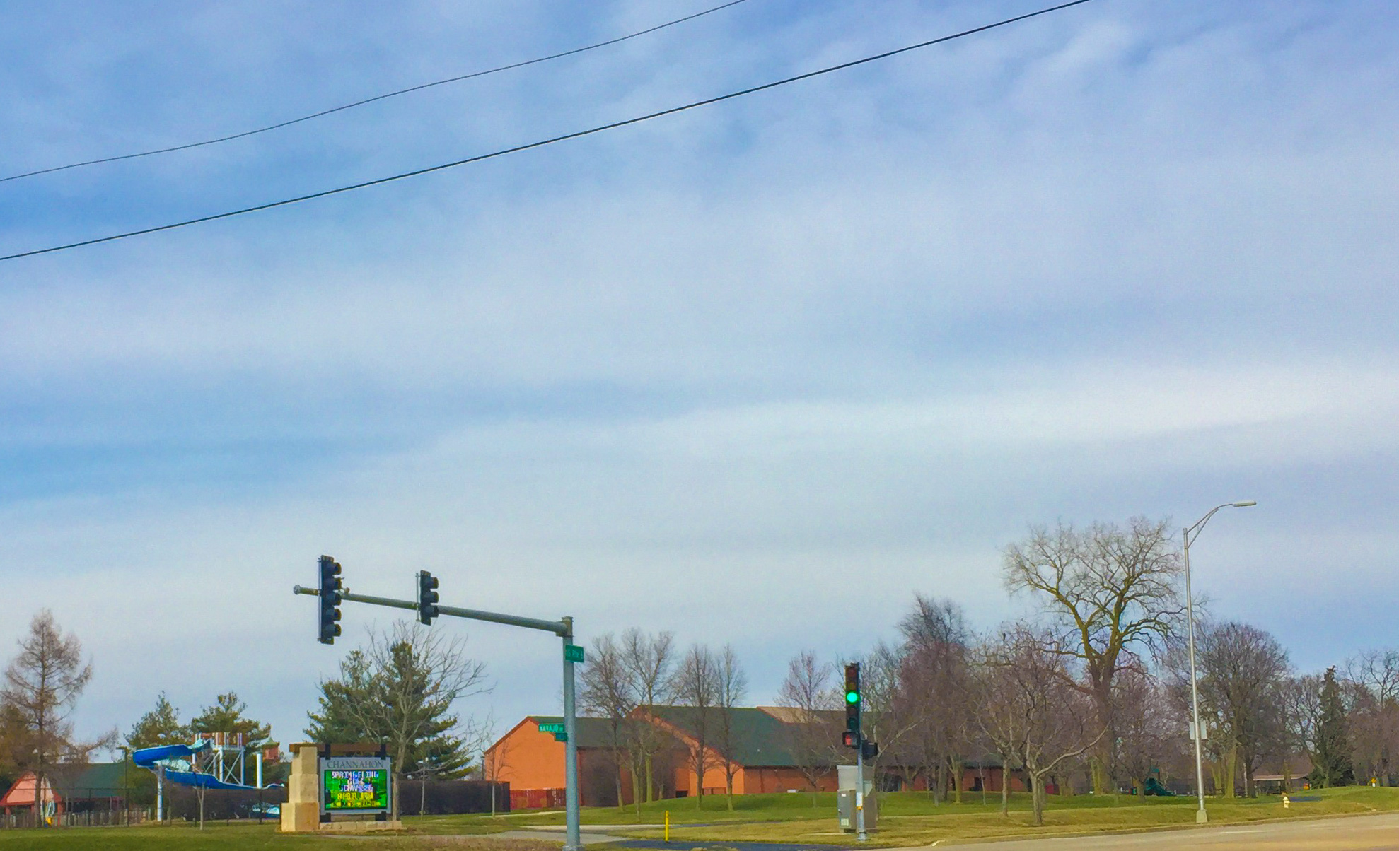 Channahon, near a community center